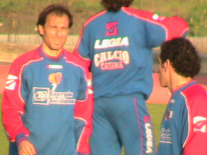 Orazio Russo and Fabio Caserta during a Calcio Catania training, in Massannunziata